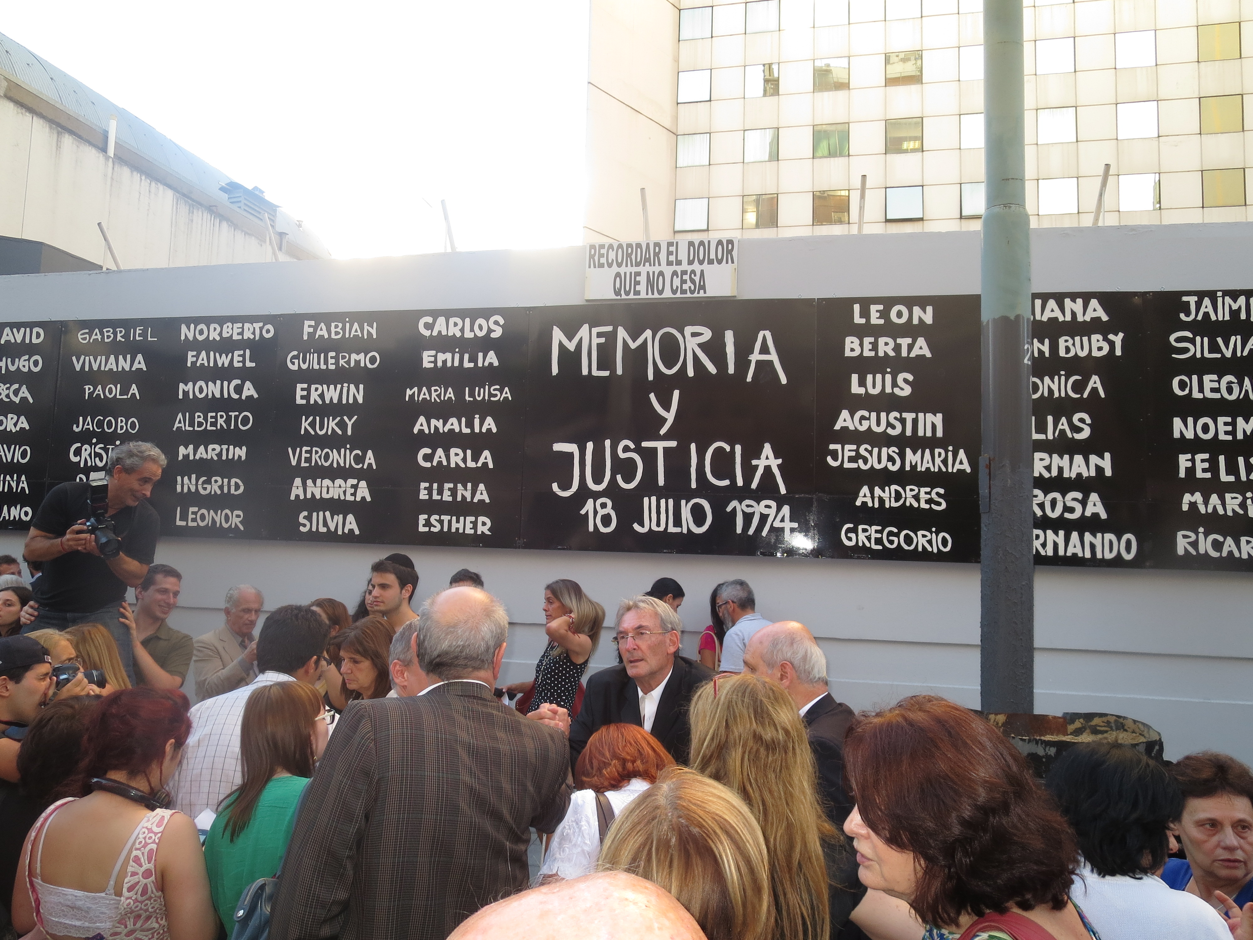 Each year thousands of persons protesting against the AMIA bombing